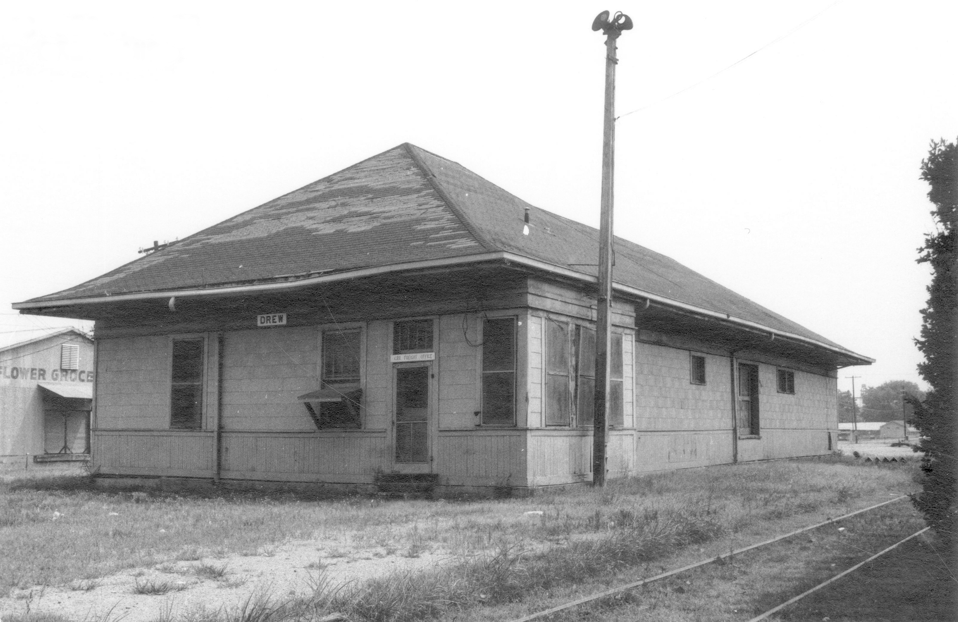 Train Depot, Drew, Mississippi. Collection: Railroad Depot Postcard Collection Call number: PI/1987.0009 System ID: 77348 Link to the catalog IC Depot, 1976, Drew, Miss. Please see our profile page for information on ordering. Scanned as tiff in 2008/11/10 by MDAH. Credit: Courtesy of the Mississippi Department of Archives and History